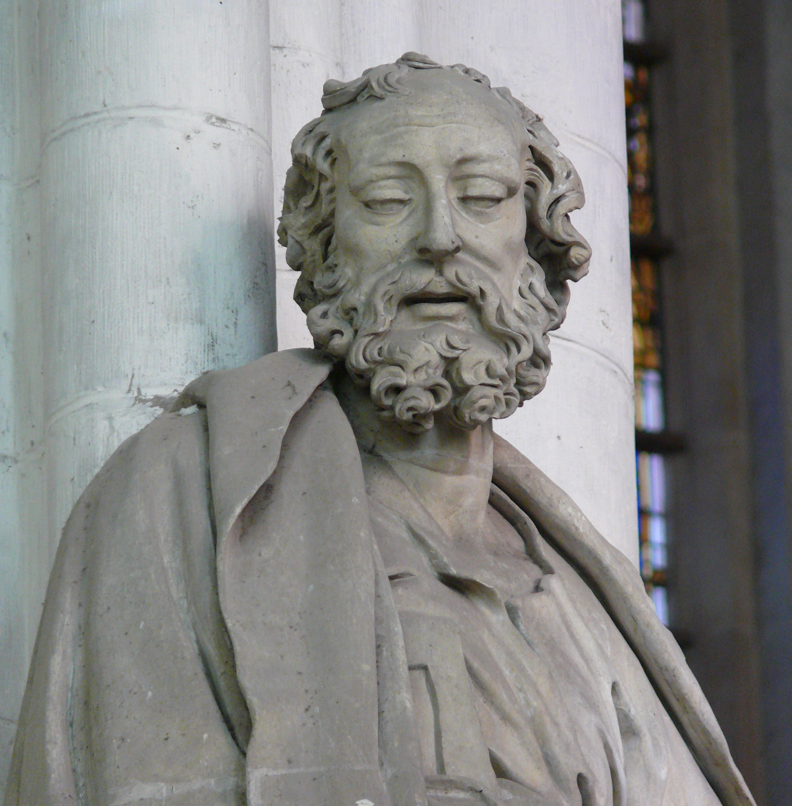 Sculpture of Saint Peter in the St-Rumbold's Cathedral (Mechelen, Belgium) by Lucas Faydherbe.